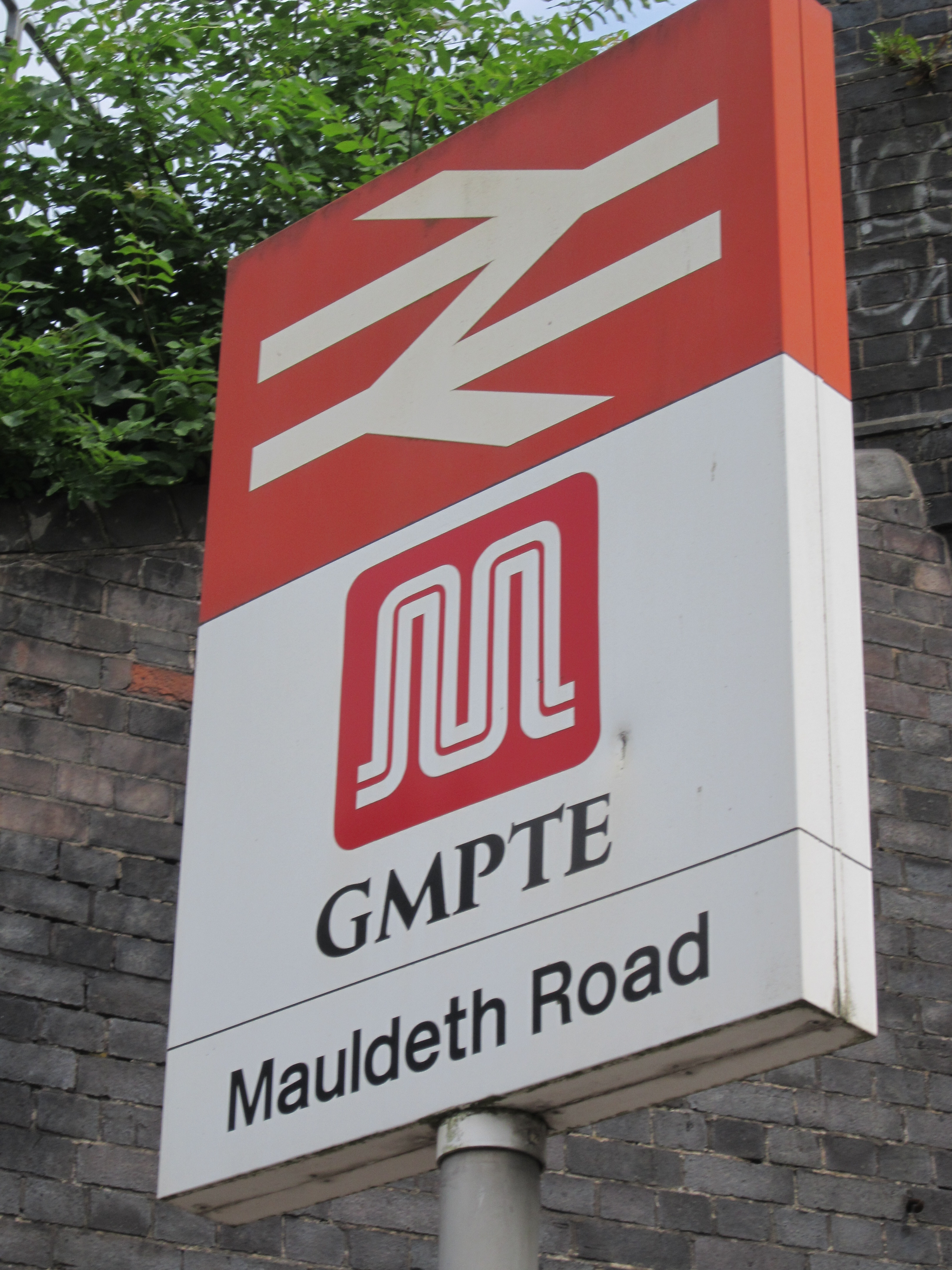 Photo taken at Mauldeth Road railway station, Manchester, England.